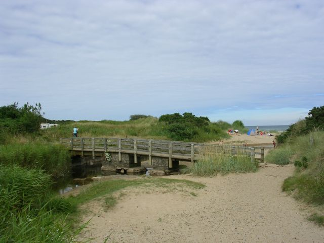 Footbridge, Traeth Lligwy. Taken from SH494872. At the point where Nant y Perfedd meets Lligwy Bay.